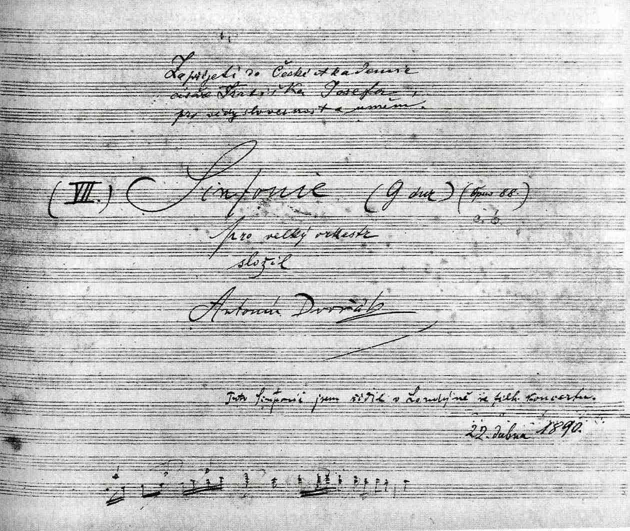 The title page of the autograph score of Dvořák's eighth symphony